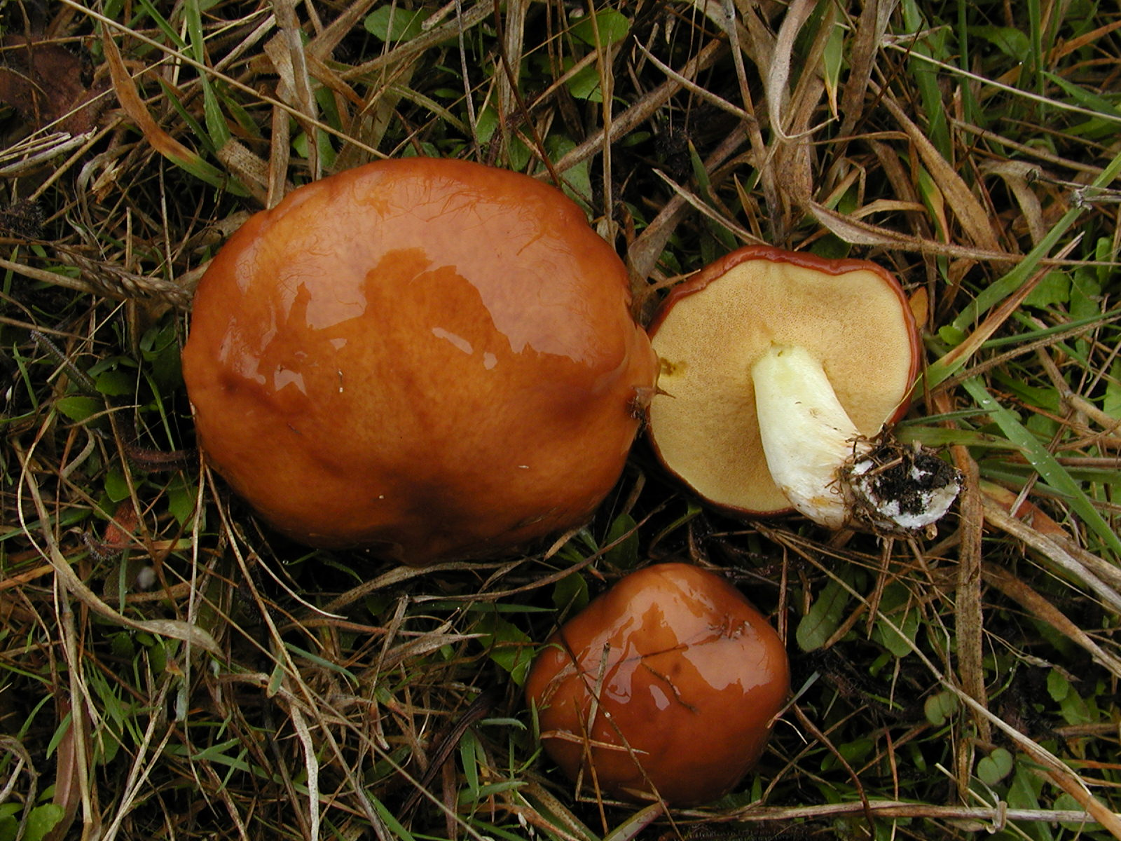 The edible bolete mushroom Suillus brevipes (Peck) Kuntze. Specimens photographed in Jackson State Forest, Mendocino Co., California, USA.